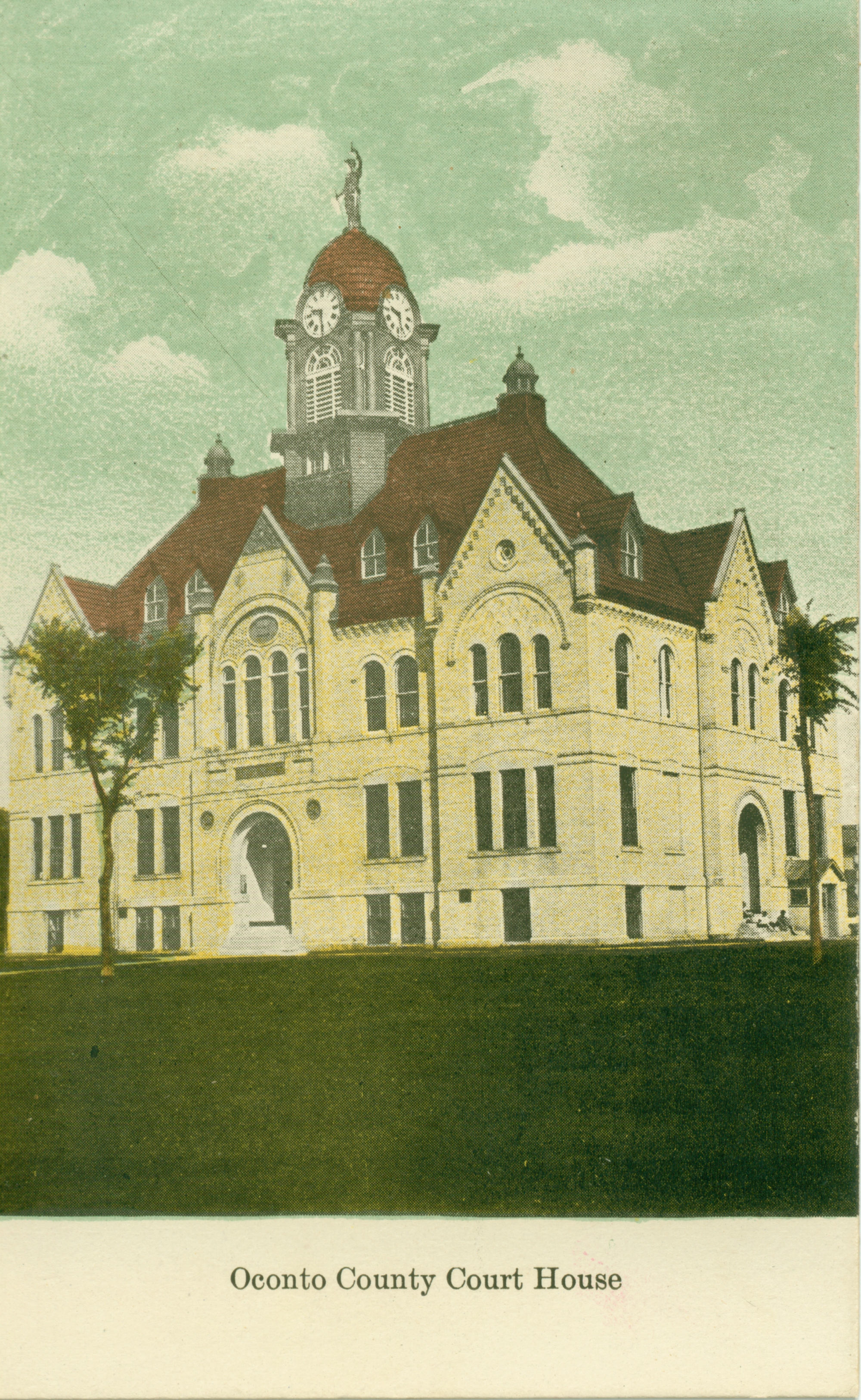 A postcard picturing the Oconto County Court House. Circa 1910.